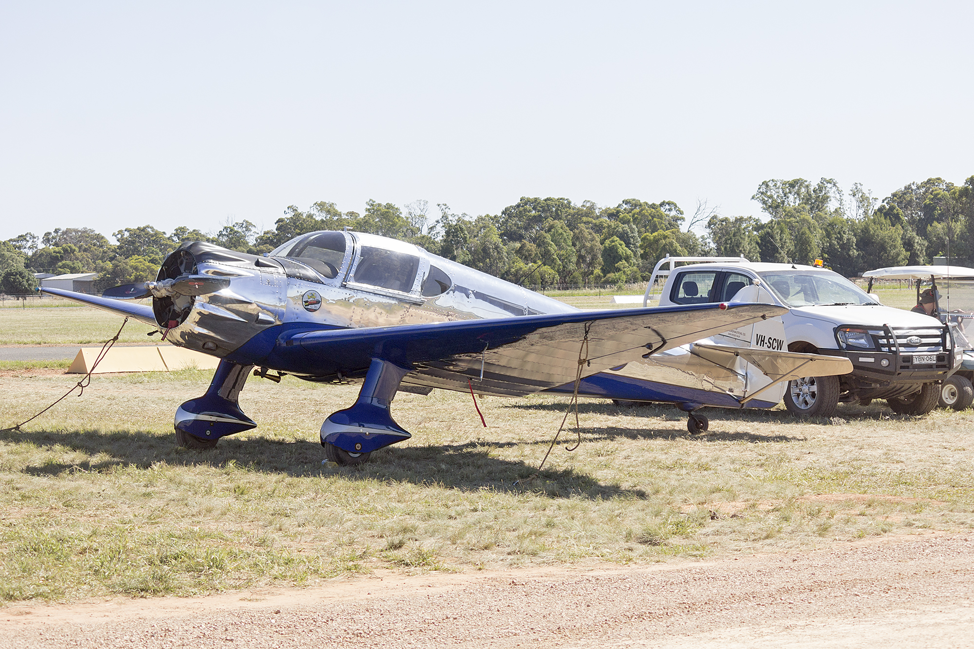 Ryan SCW-145 (VH-SCW) at the 2015 Warbirds Downunder Airshow at Temora Aviation Museum.